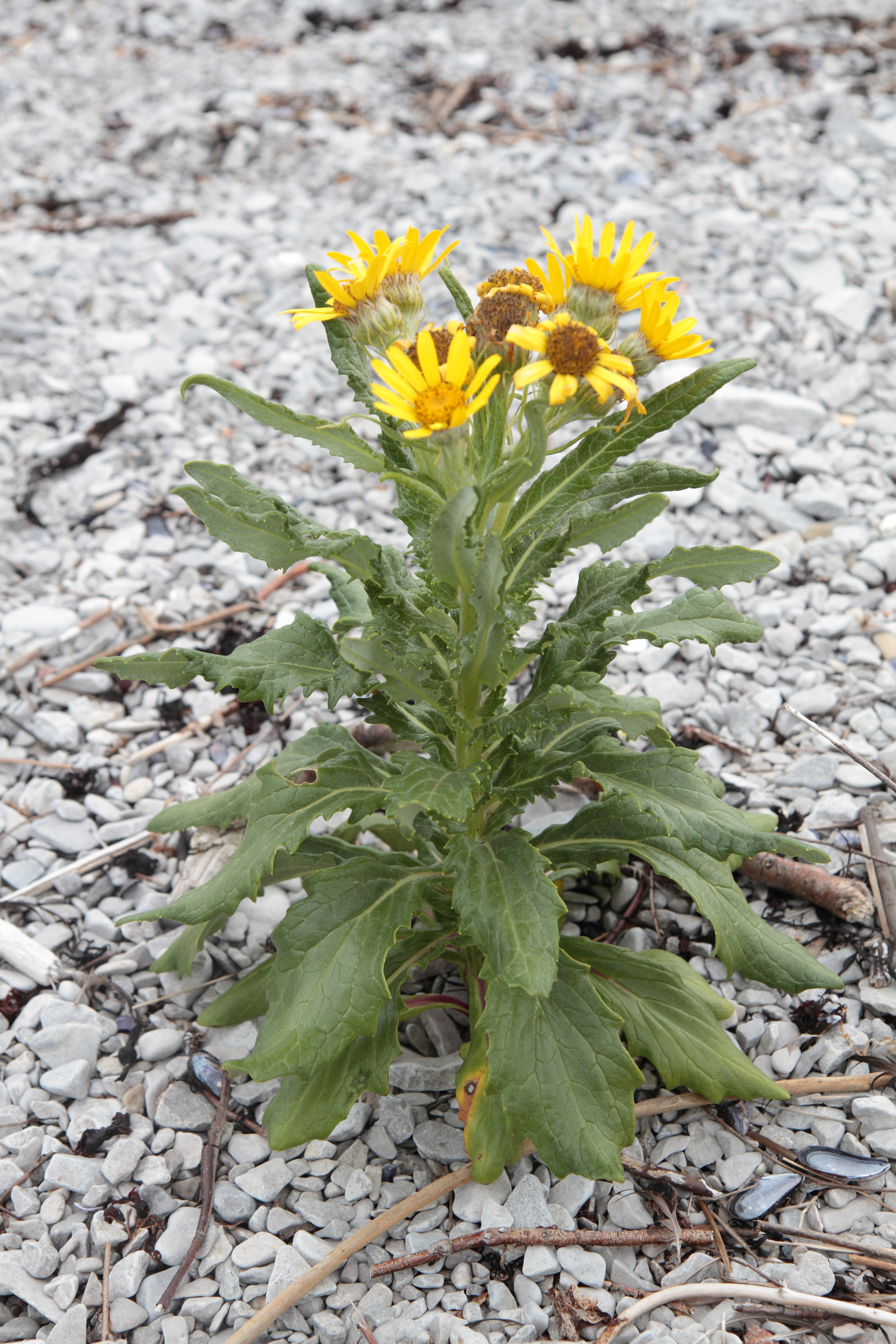 Seabeach Groundsel on Niapiskau island, Mingan Archipelago National Park Reserve, Quebec, Canada.